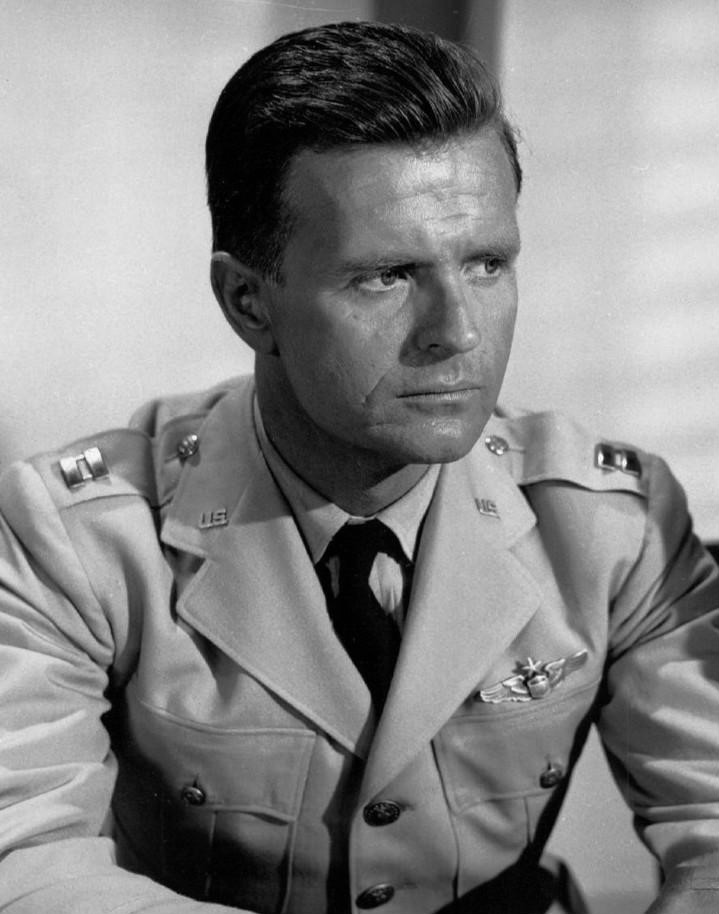 Photo of actor Philip Abbott as Captain Peterson from the television program Steve Canyon.